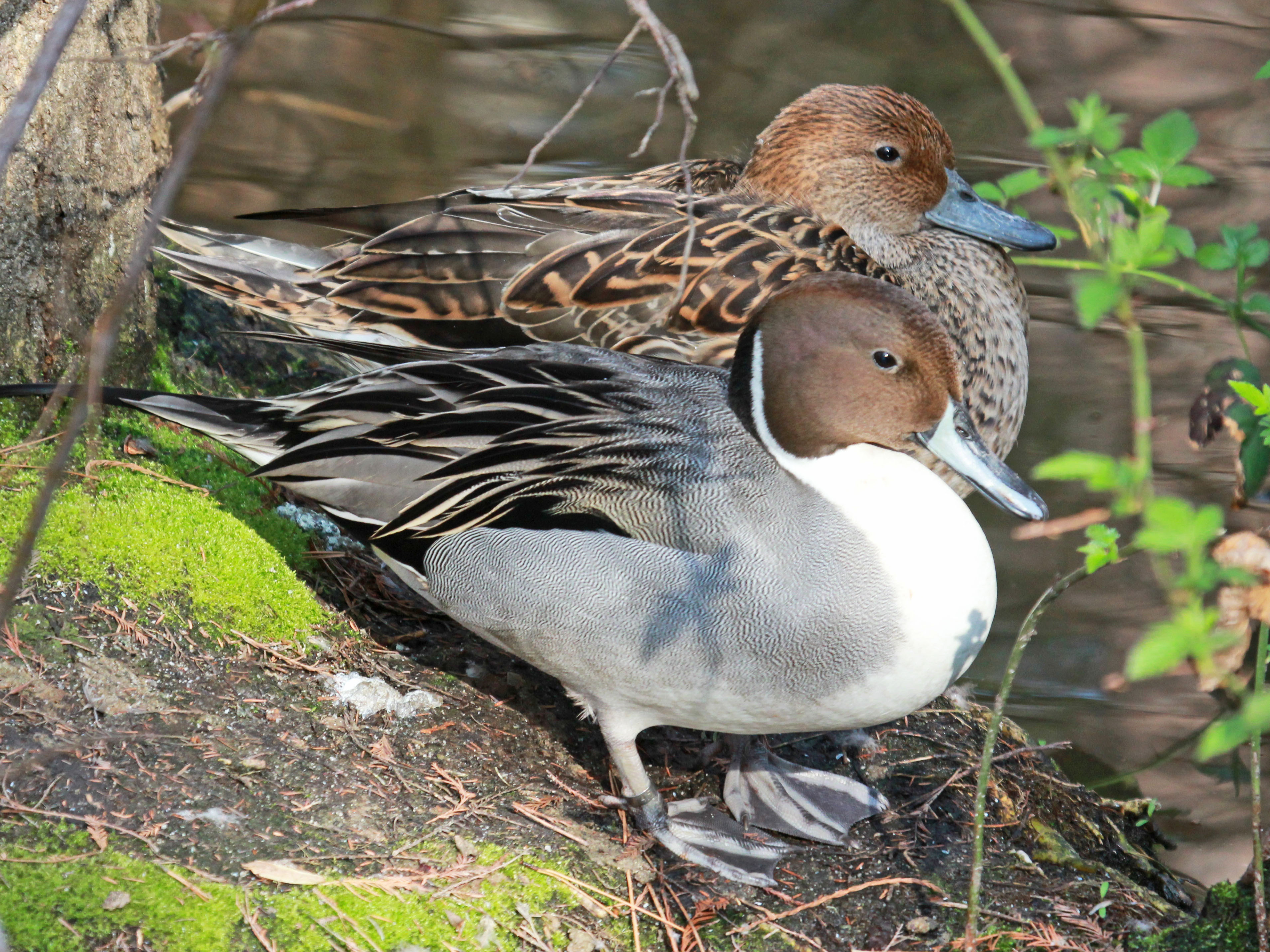 Male and female Northern Pintails (Anas acuta) at the North Carolina Zoo in Ashboro, North Carolina